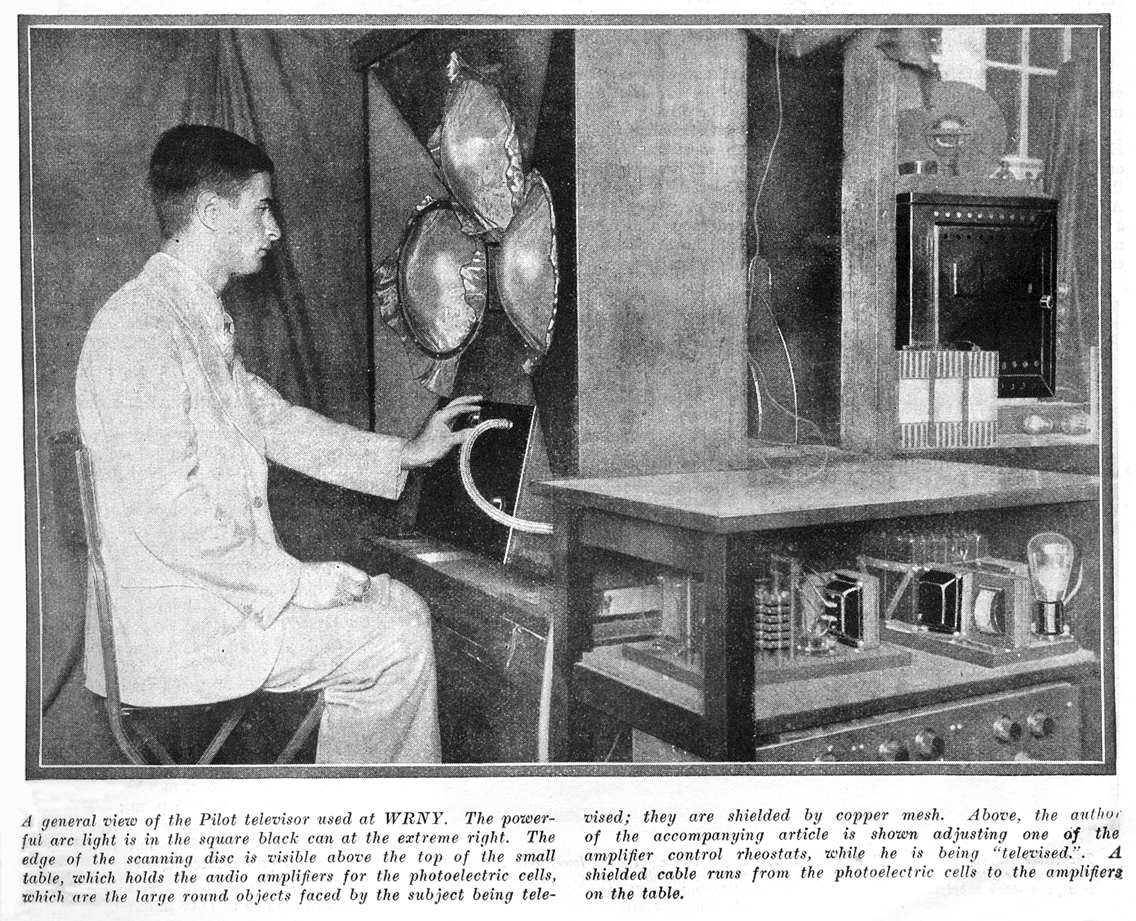 Robert Hertzberg, Managing Editor of Radio News, with WRNY's television camera. August 1928. Image cropped from page 413 Radio News, November 1928. Volume 10 Number 5. Published by Experimenter Publishing, New York, NY Editor-in-Chief and Publisher: Hugo Gernsback Table of Contents Image:Radio News Nov 1928 pg402.png The page numbers were on an annual basis, not per issue. This issue had pages 401 to 512. The magazine is 8.5 by 11.5 inches (23 by 29 cm).